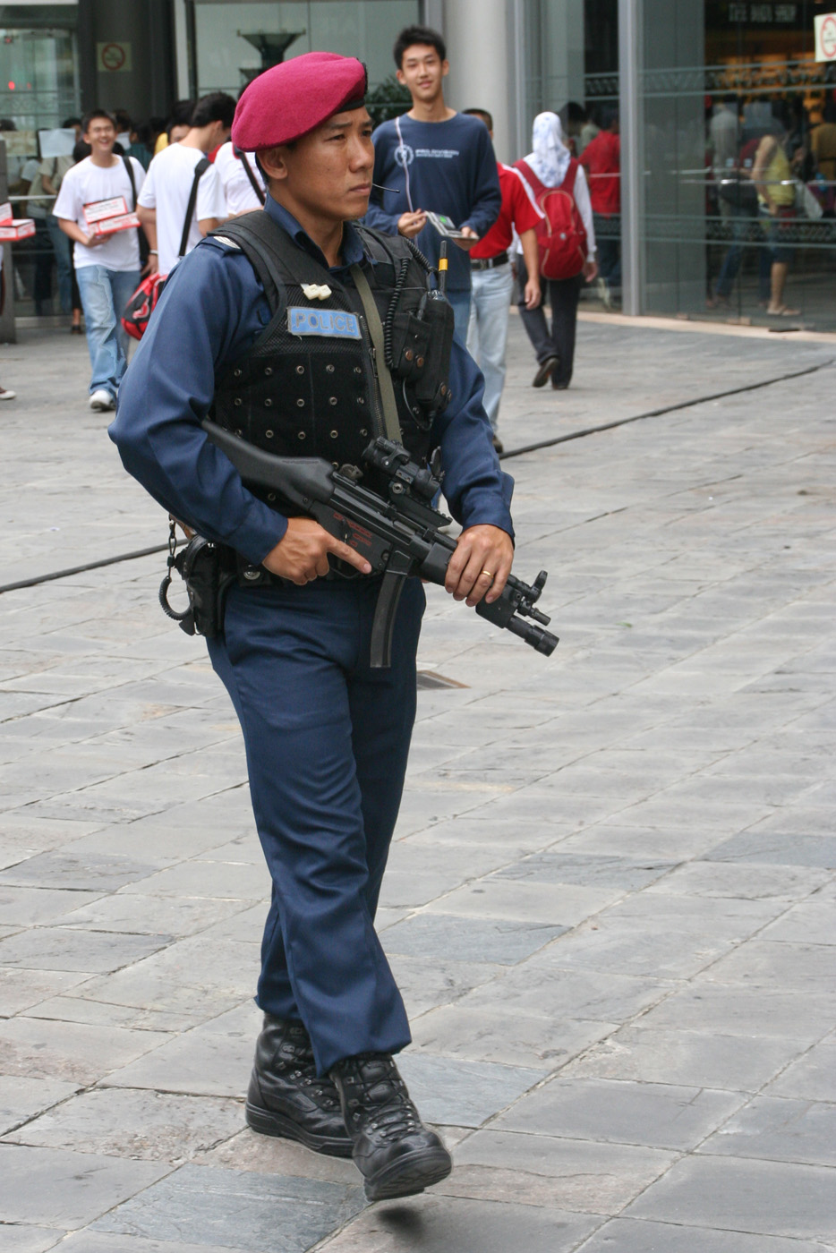 Officer from the Police Tactical Unit, Singapore Police Force, on patrol at Raffles City during a rehearsal for the National Day Parade. He belongs to the earlier batches of high-visible patrols by the PTU, and dons the new red beret together with the older combat uniform.